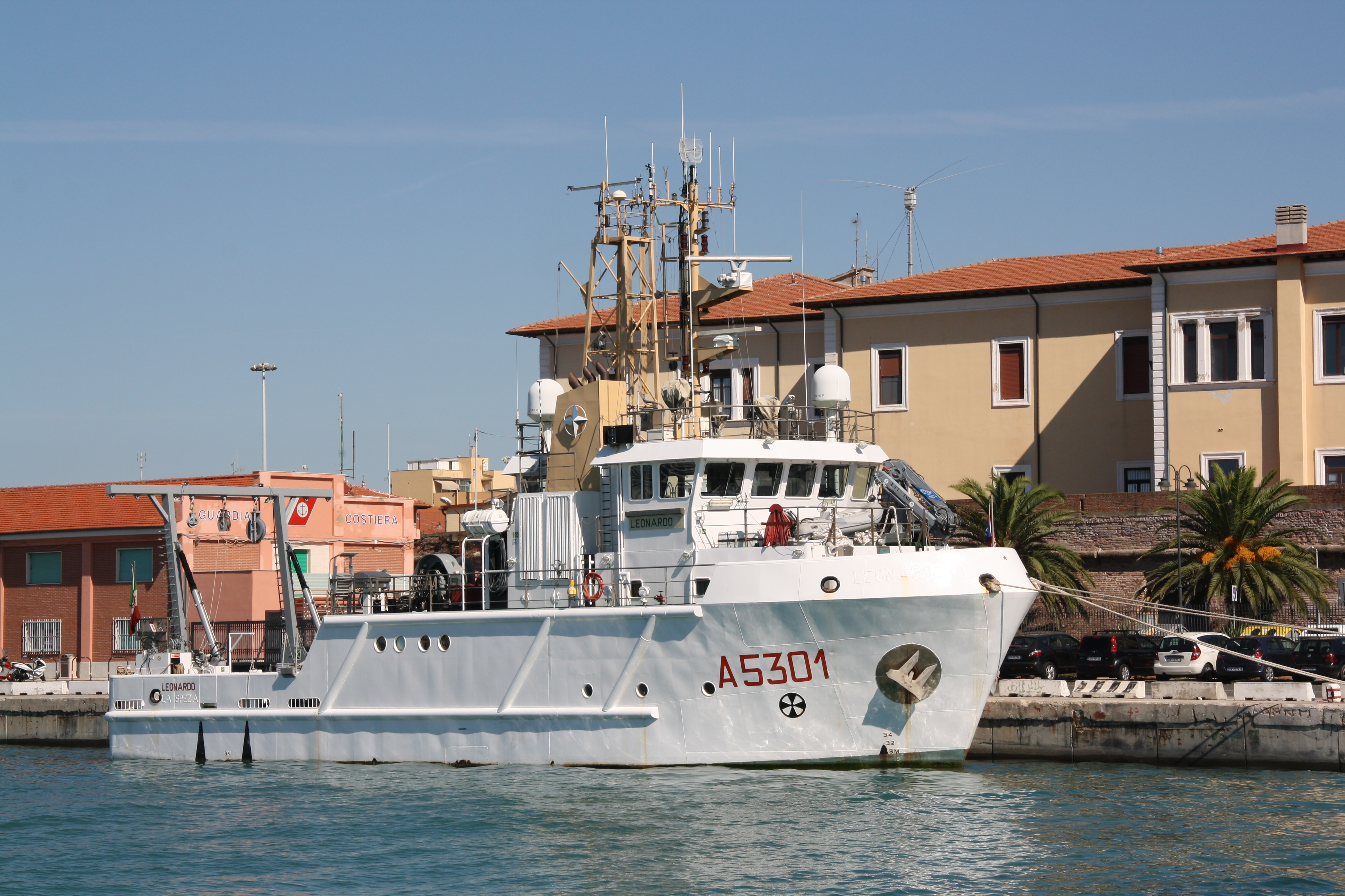 Italy Navy: Marina Militare Pennant number: A 5301 Type: Coastal Research Vessel Launch date: January 3, 2002 Shipyard: McTay Marine, Bromborough, England Displacement: 433 t Length overall: 29 m Beam: 9 m Draft: 2.5 m Main engine: 3 diesel alternator engines Kummings Type 1170 KW Speed: 10 knots Crew: 9 The ship Leonardo is a Coastal Research vessel active in the NATO through the Centre for Maritime Research and Experimentation regarding acoustic and environmental fields. The unit was delivered to NATO Underwater Research Centre in December 2002 and since October 2013 is operationally reporting to CINCNAV. In 2010 she took part in the research on the communications between sea-lions in the Ligurian Sea; in 2011 and 2012 conducted the measuring of the sea floor deformation and survey of hydrocarbons on seabed; in 2013 was involved in the project regarding underwater wireless communications network in order to replace the telephone cables laid on the ocean sea floor.